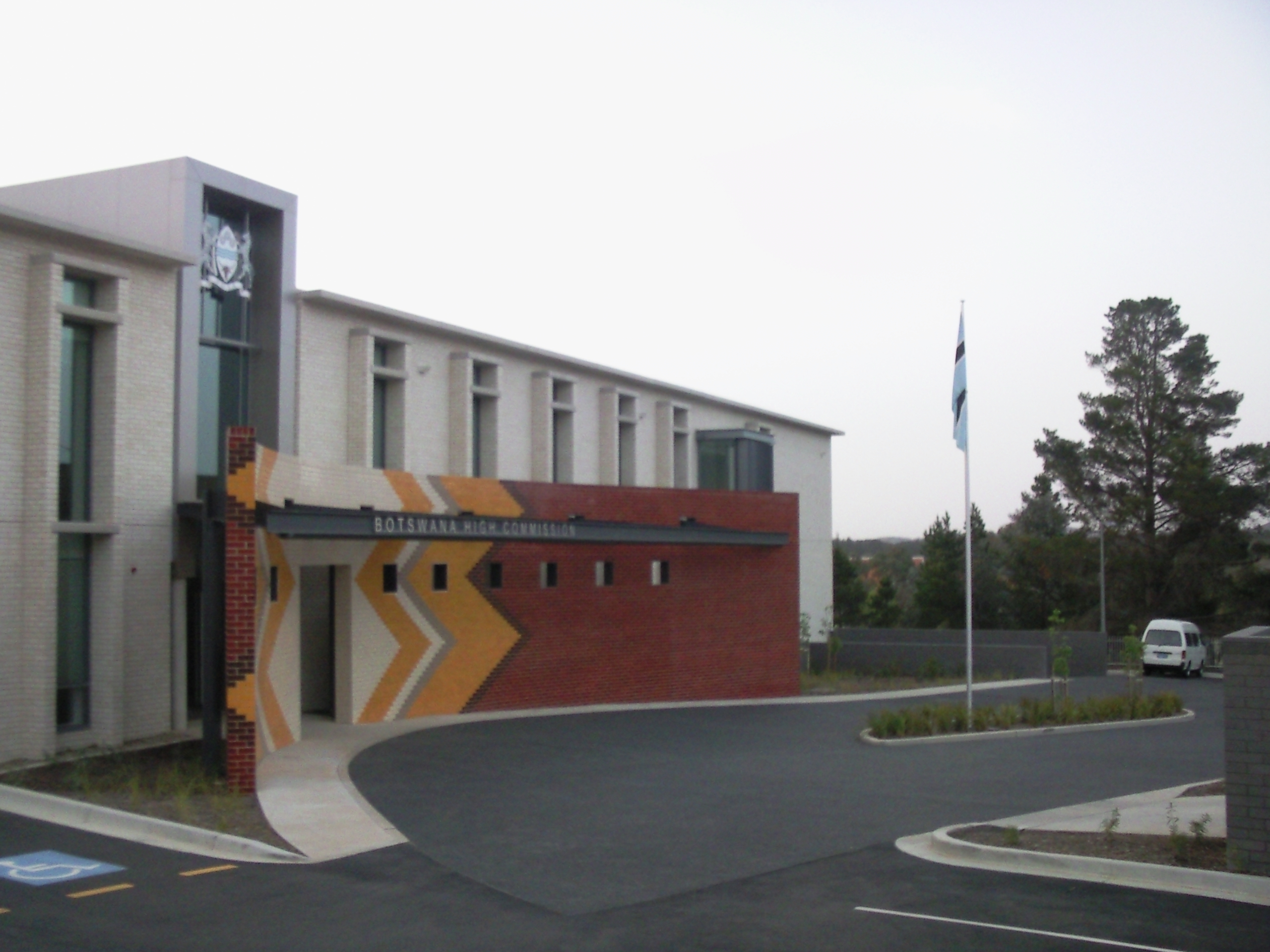 High Commission of Botswana in Canberra